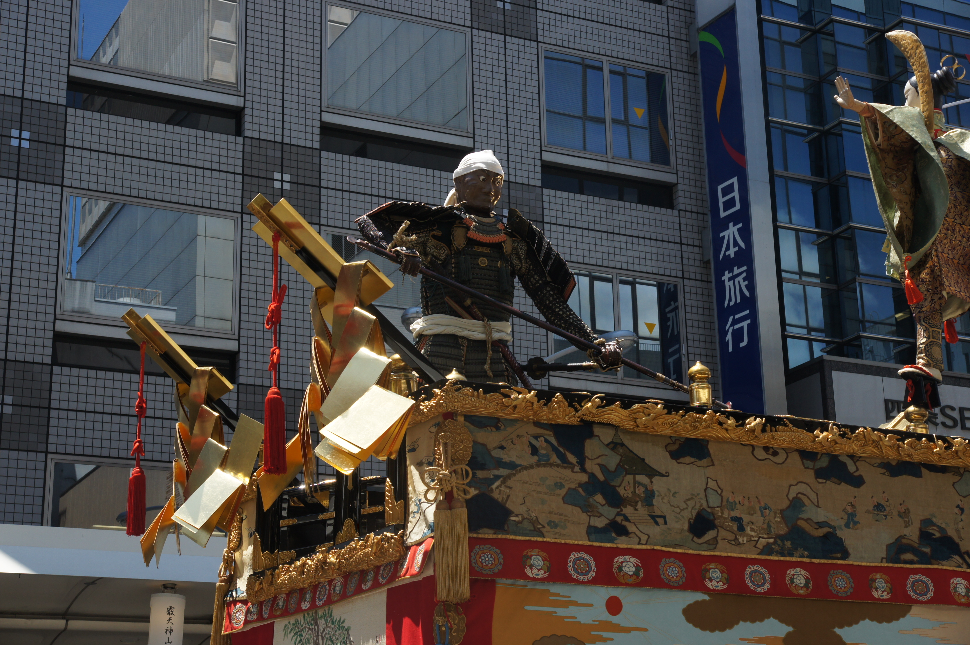 Gion Matsuri